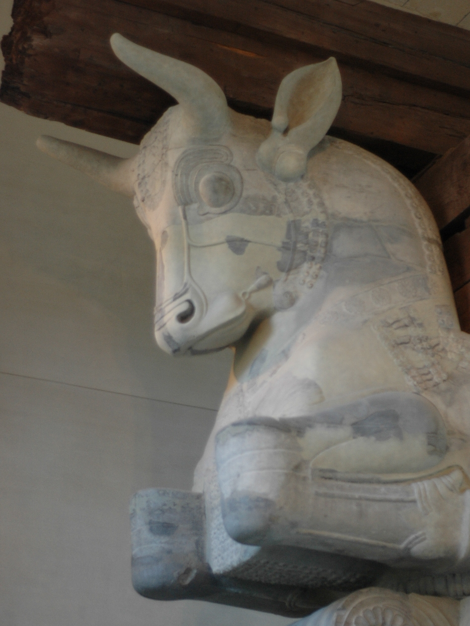 Double bull-capital from the Apadana (audience chamber) of Darius' palace at Susa. Limestone, ca. 510 BC.